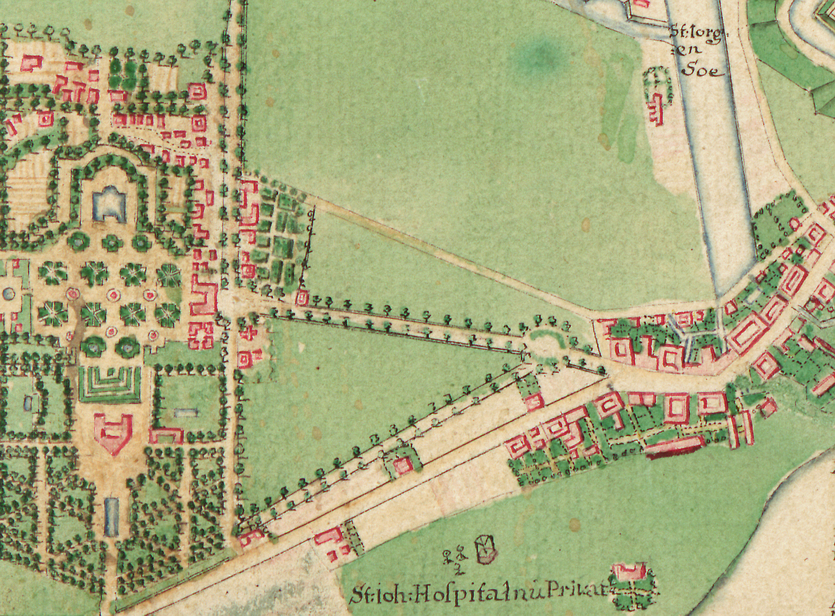 Frederiksberg with Vesterbrogade, Frederiksberg Allé and Gammel Kongevej seen on a map detail from the 18th century.